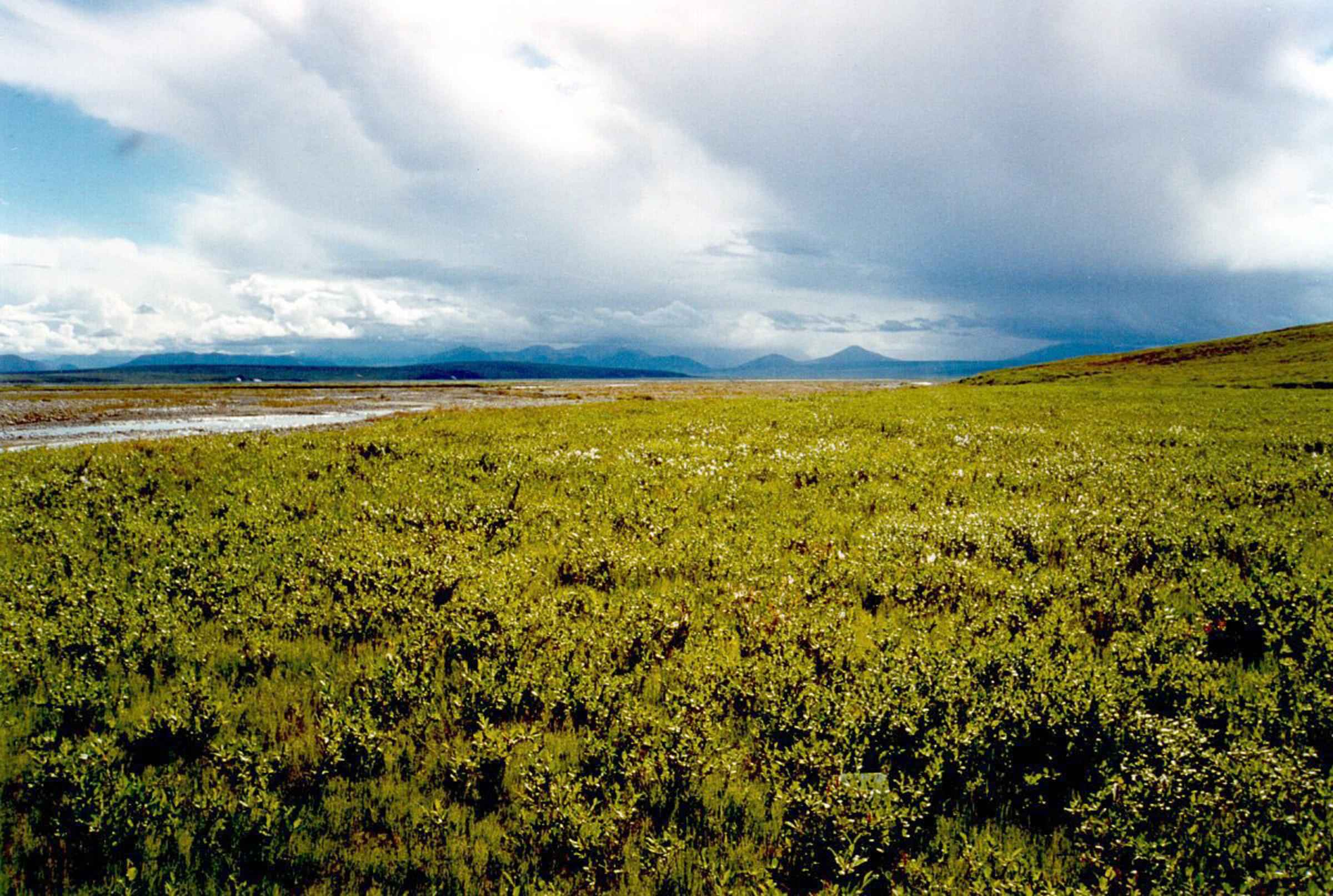 Image title: Tundra Image from Public domain images website